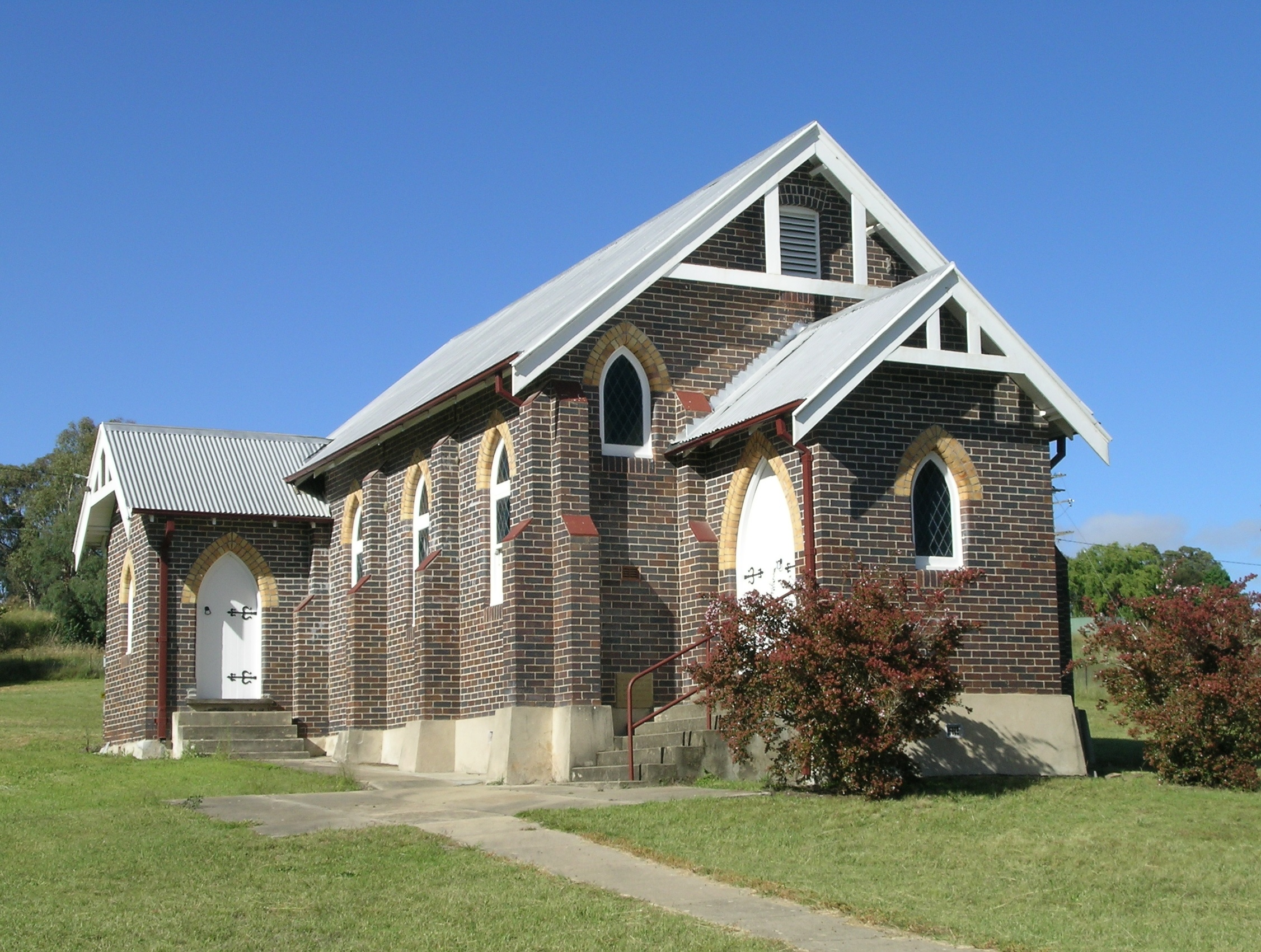 St John’s church, Woolbrook, NSW; constructed in 1929.